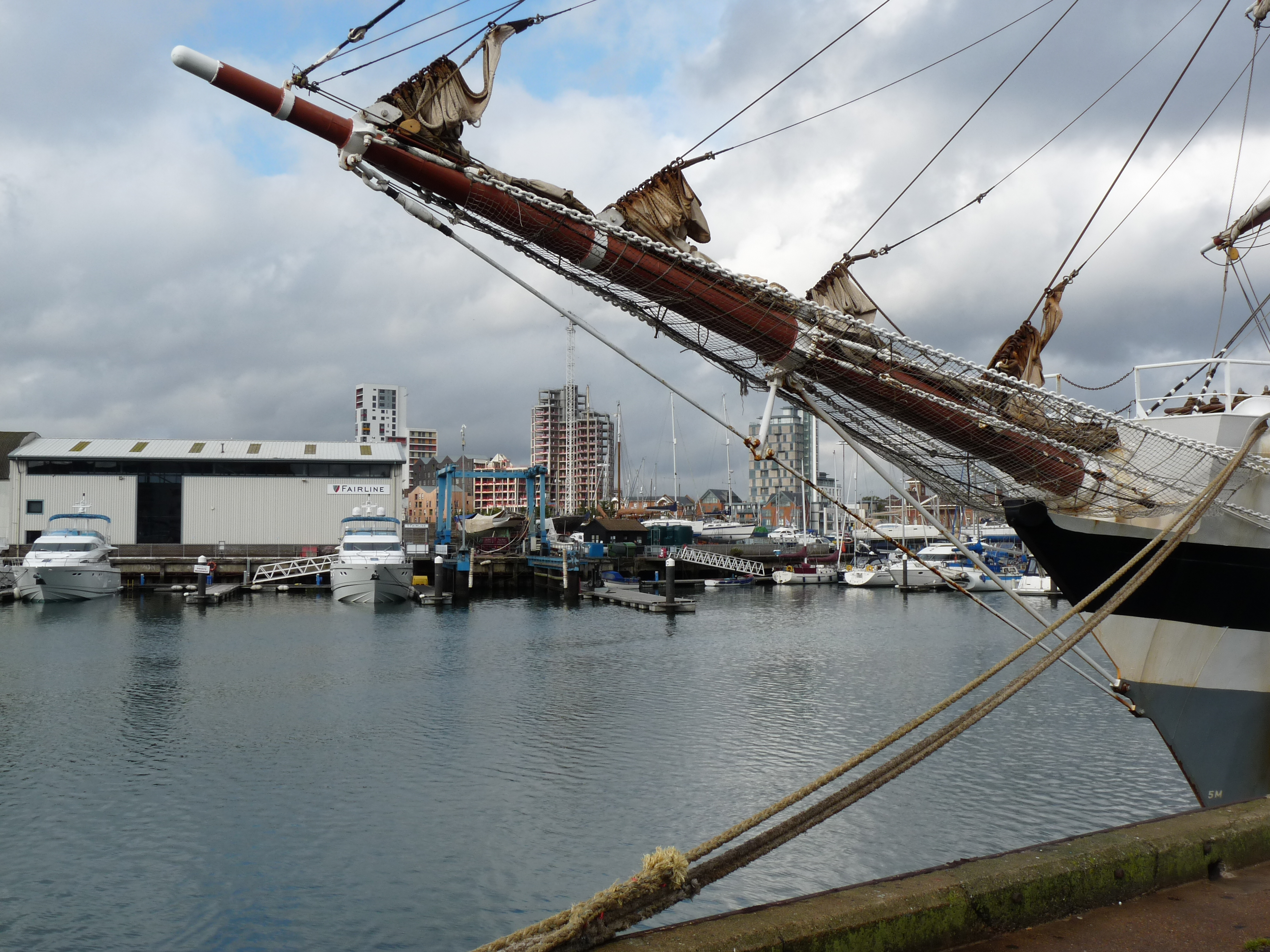 Stavros S Niarchos (a Tall ship) in Ipswich dock